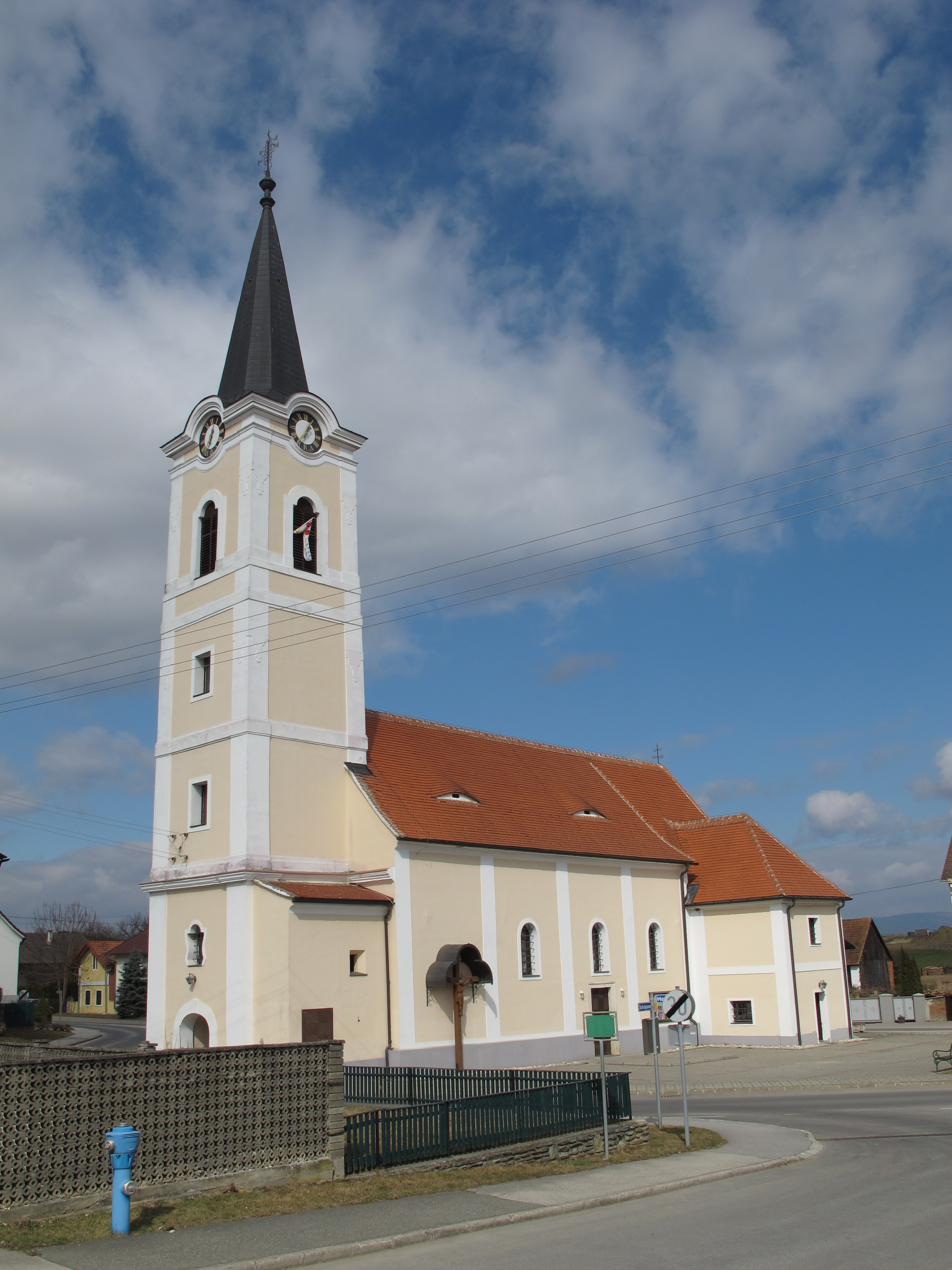 Saint Ladislaus Parish church of Mischendorf, Burgenland, Austria